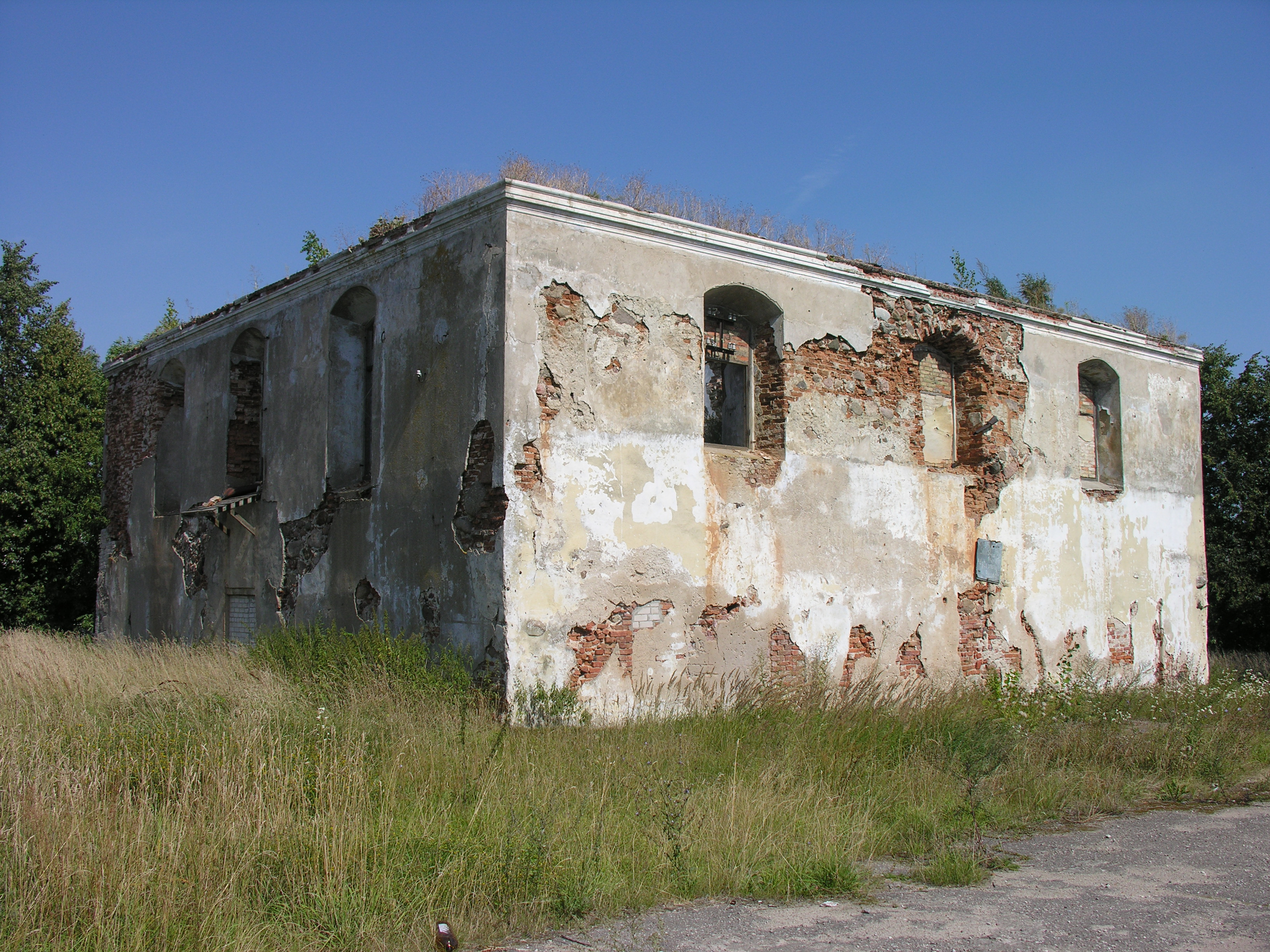 Synagoga Letnia w Kalwarii